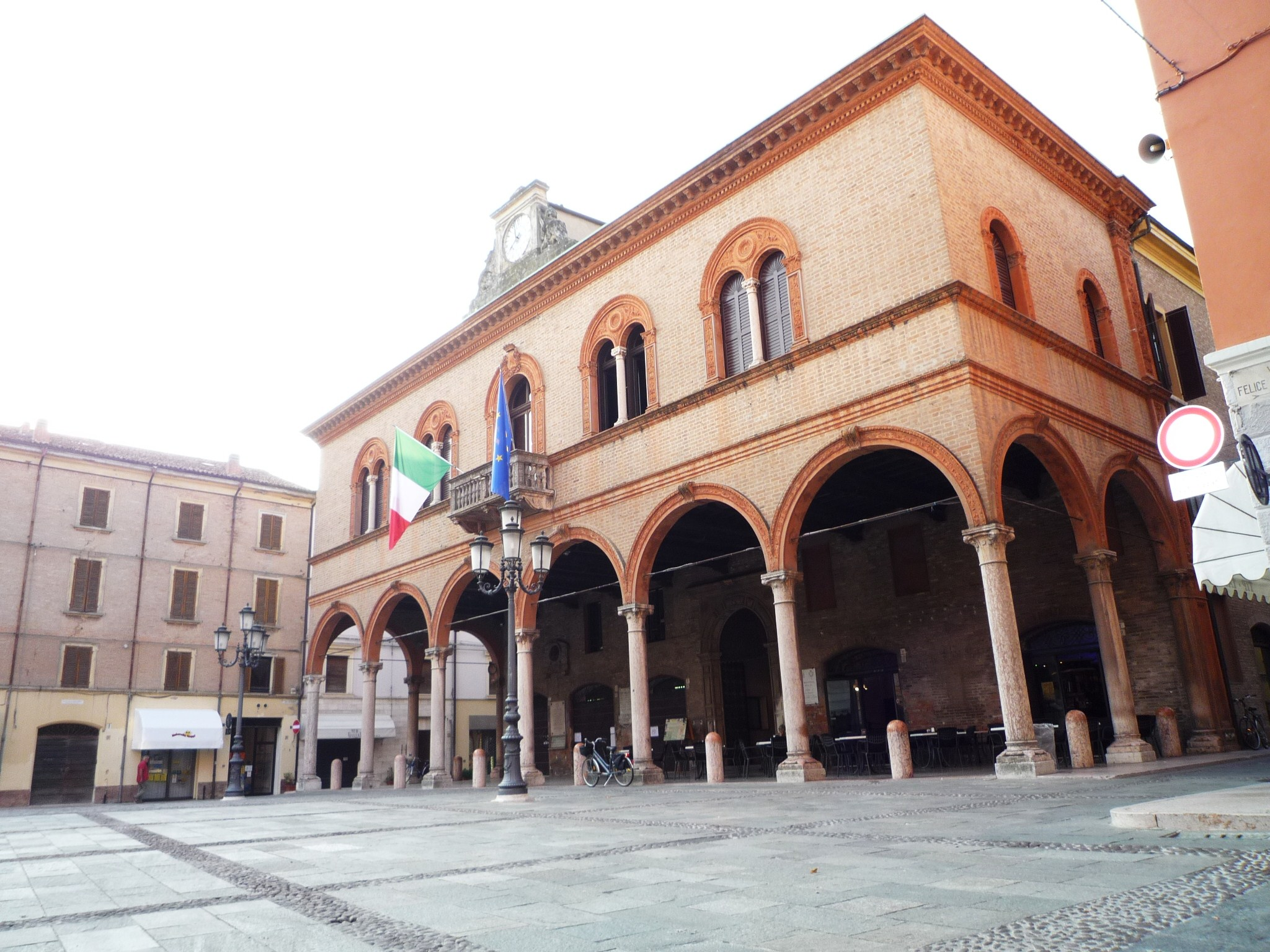 Mirandola-2 Date8/20/10SourceOwn workAuthorBoardvital111Permission (Reusing this file) All Rights Released Mirandola-2